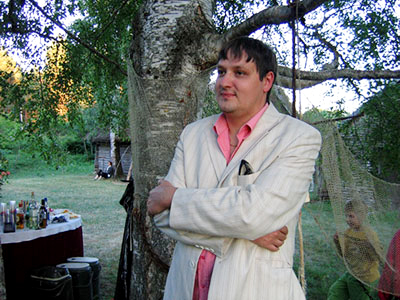 Nerva at the opening of his exhibition "decoLight" in Karepa, Estonia in 2006